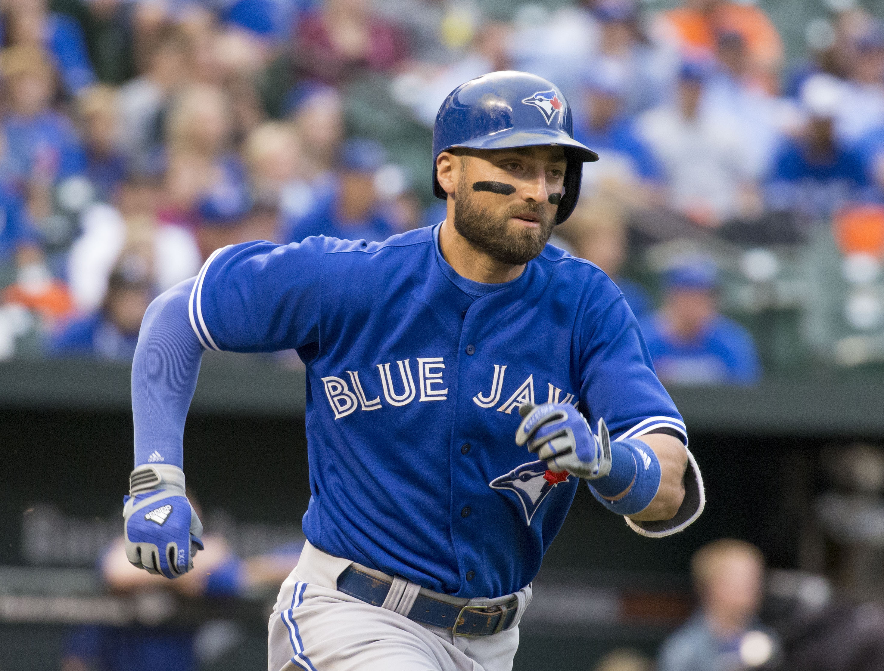 Kevin Pillar on September 30, 2015